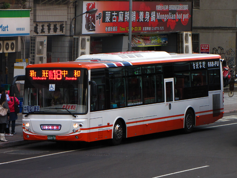 668-FU